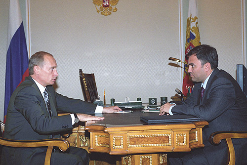 Putin and Deputy head of the State Duma Viacheslav Volodin.